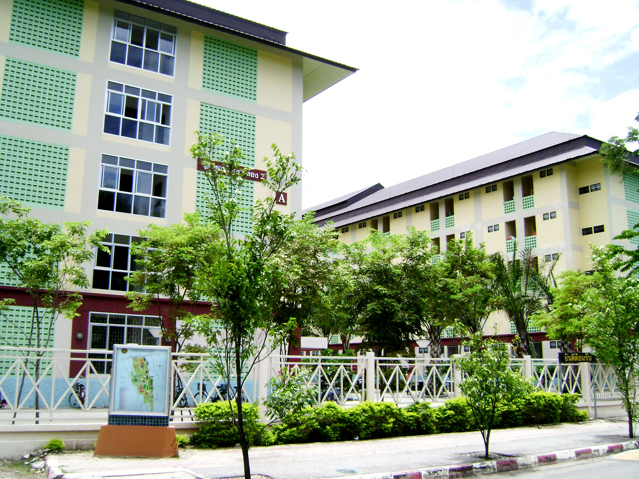 Gray Gold 50th Dormitory II, Burapha University, Thailand. near Gray Gold 50Th Dormitory I